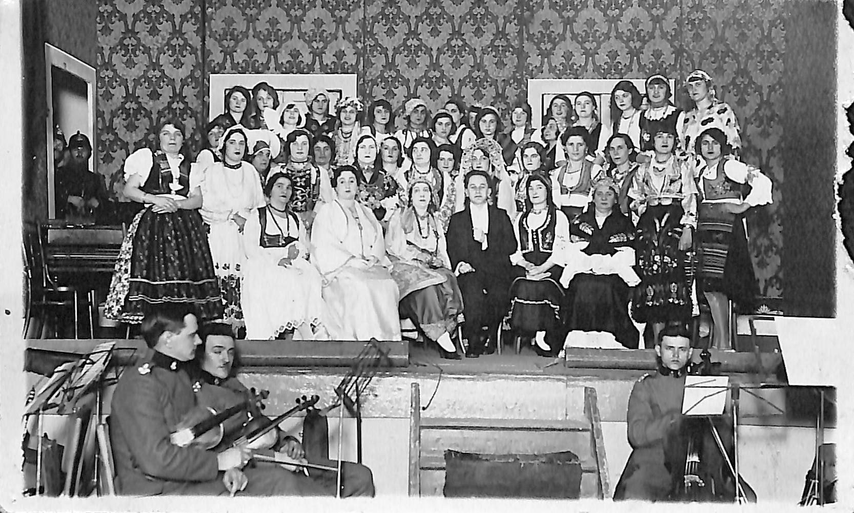 Members of the Serbian Sisters' Carriage in Pančevo at the celebration